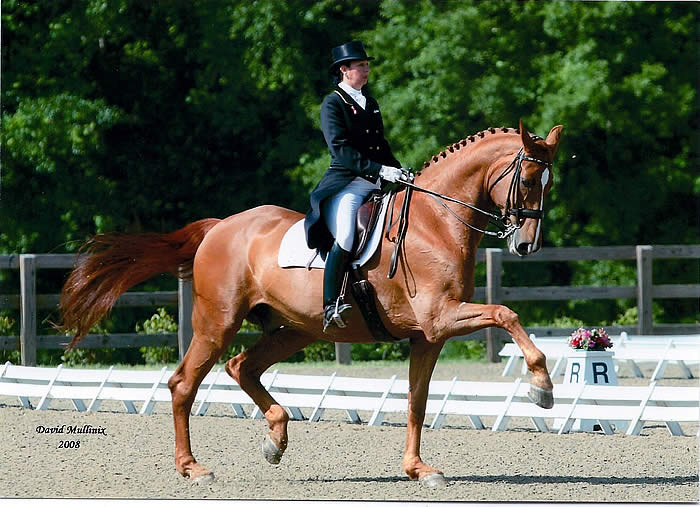 Suzanne Dansby and her horse Cooper in competition